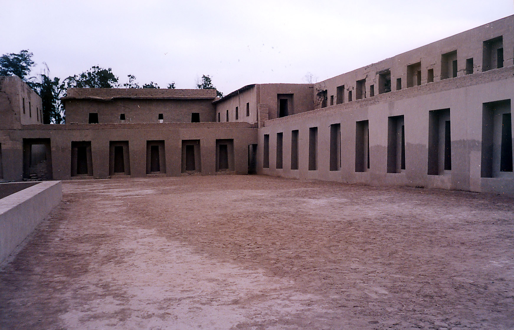 Pachacamac archeological site, Mamacona. In the Lurin valley, 31 km south of Lima, Peru. The picture was taken in 2002 by Håkan Svensson (Xauxa).